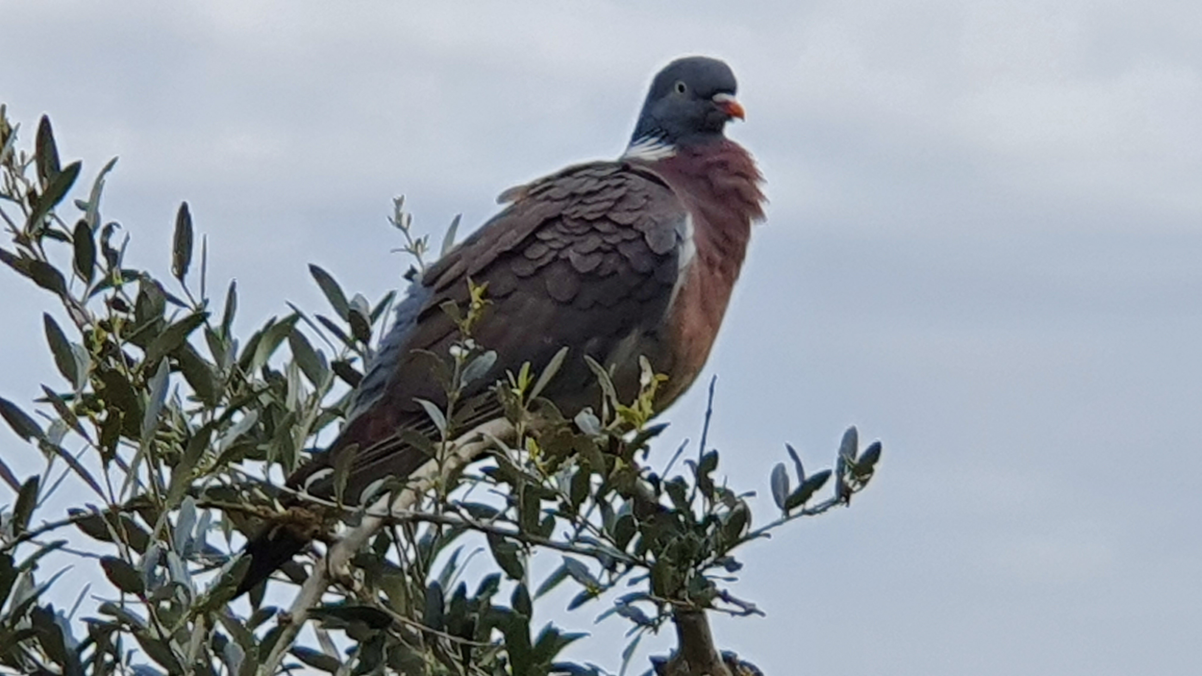 Columba palumbus on an olive tree at San Gimignano